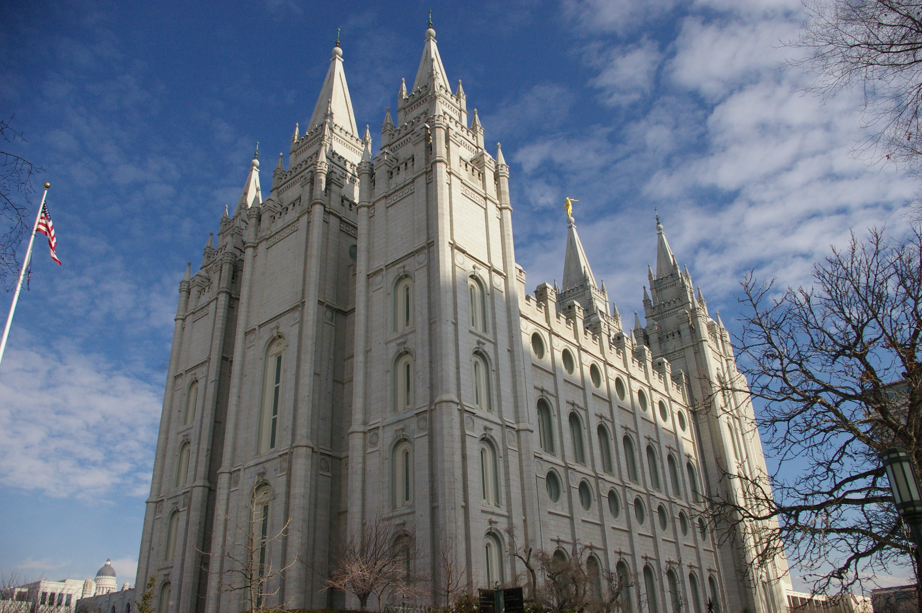 The Salt Lake Temple of The Church of Jesus Christ of Latter-day Saints. Note the Utah State Capitol building in background, lower left. The golden statue of Moroni is 12 feet tall.